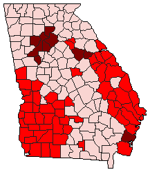 A map of the counties won by each candidate in the Georgia Republican primary, 2008.